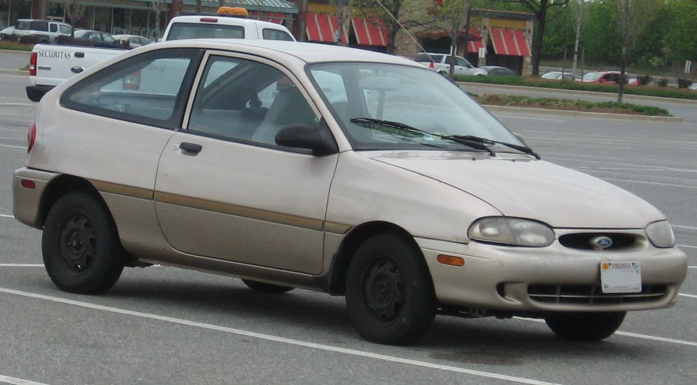 Ford Aspire photographed in USA.